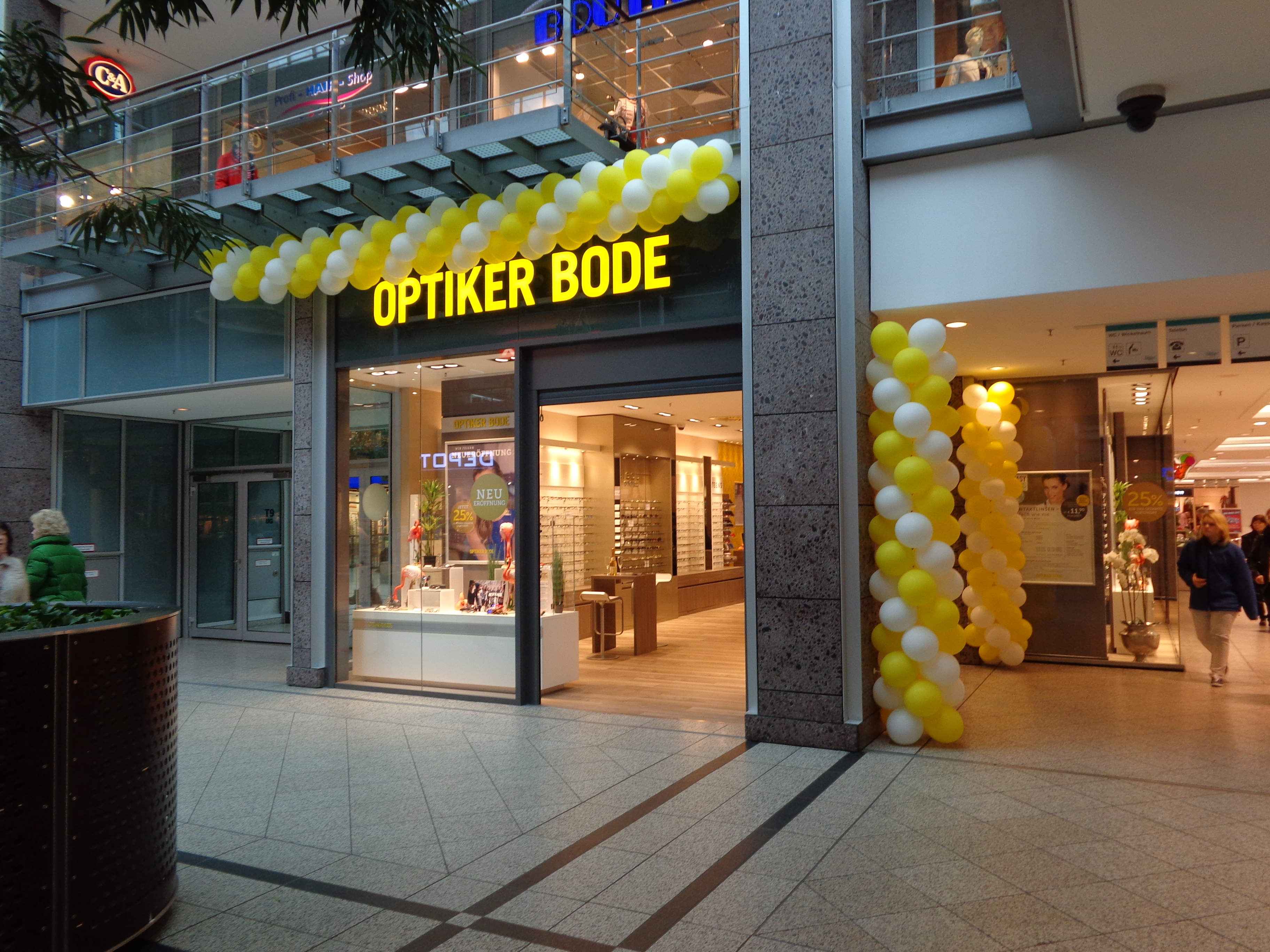 Optician Shop Optiker Bode in Berlin-Koepenick, Bahnhofstraße 33-38 (Forum Koepenick), in April 2015.